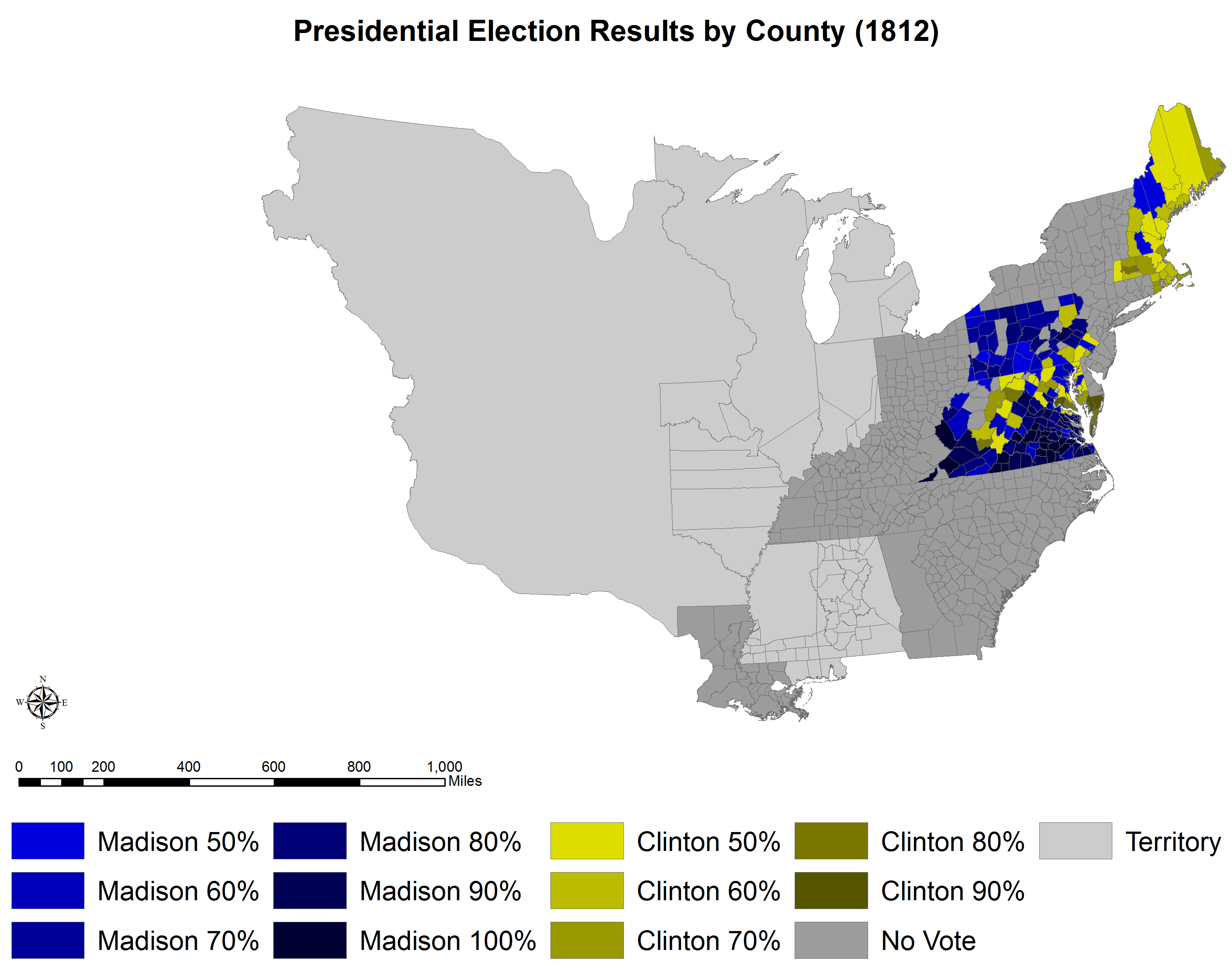 Presidential election results by county (1812).